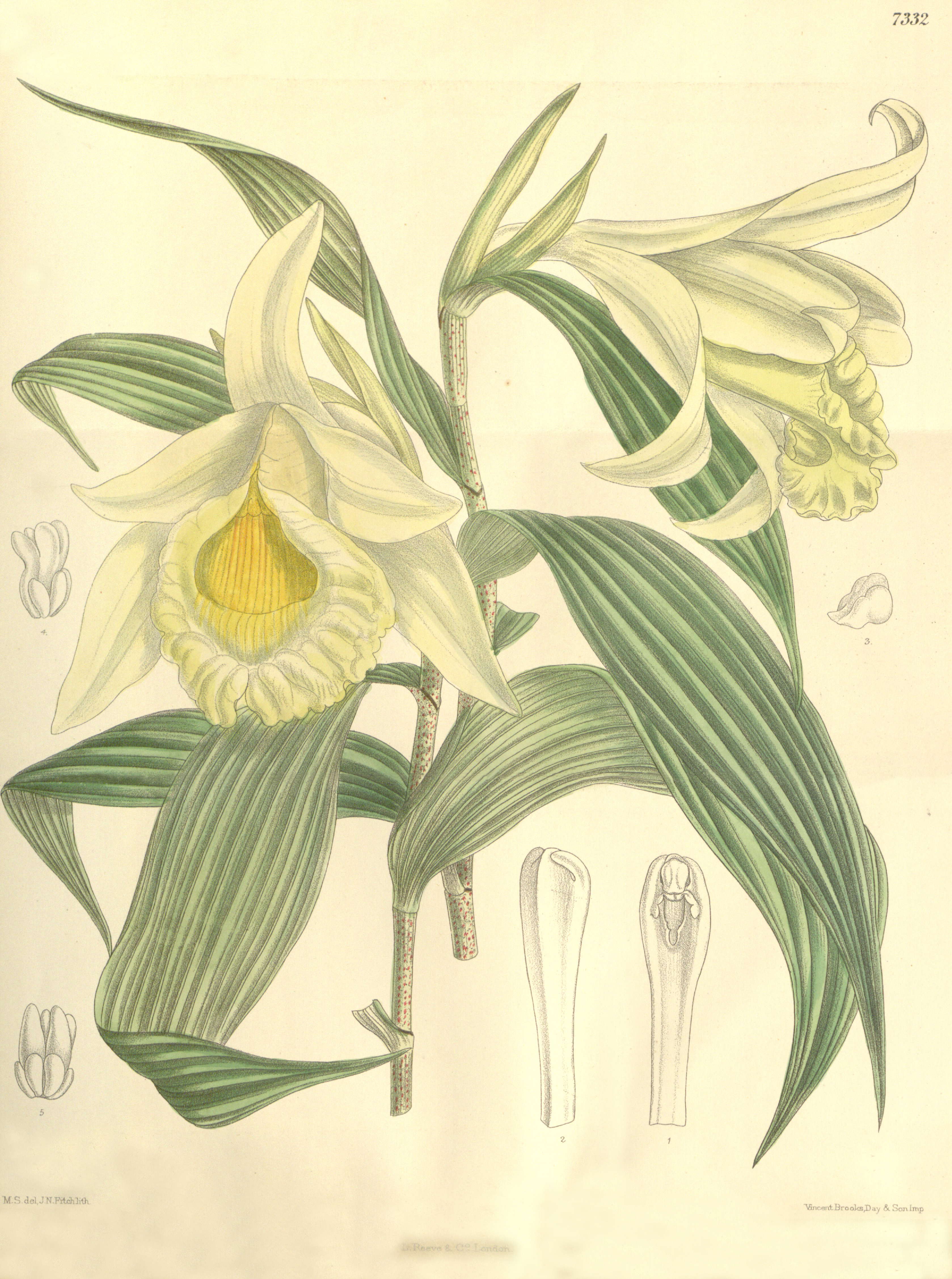 Illustration of Sobralia xantholeuca